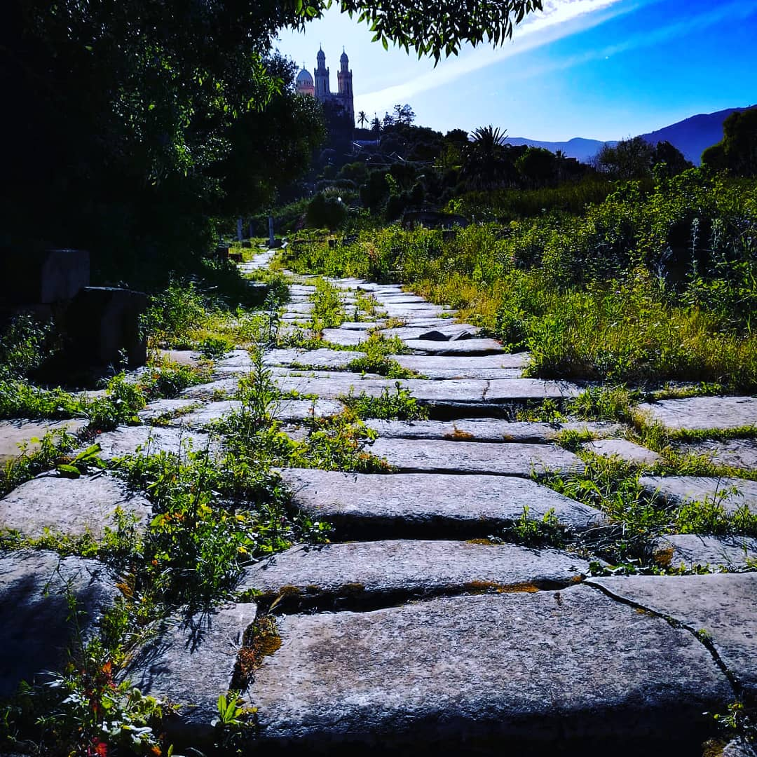 This picture represents 3200 years of the history of Annaba. It was taken at the hyponne museum. These cobblestones were the main road to Carthage.